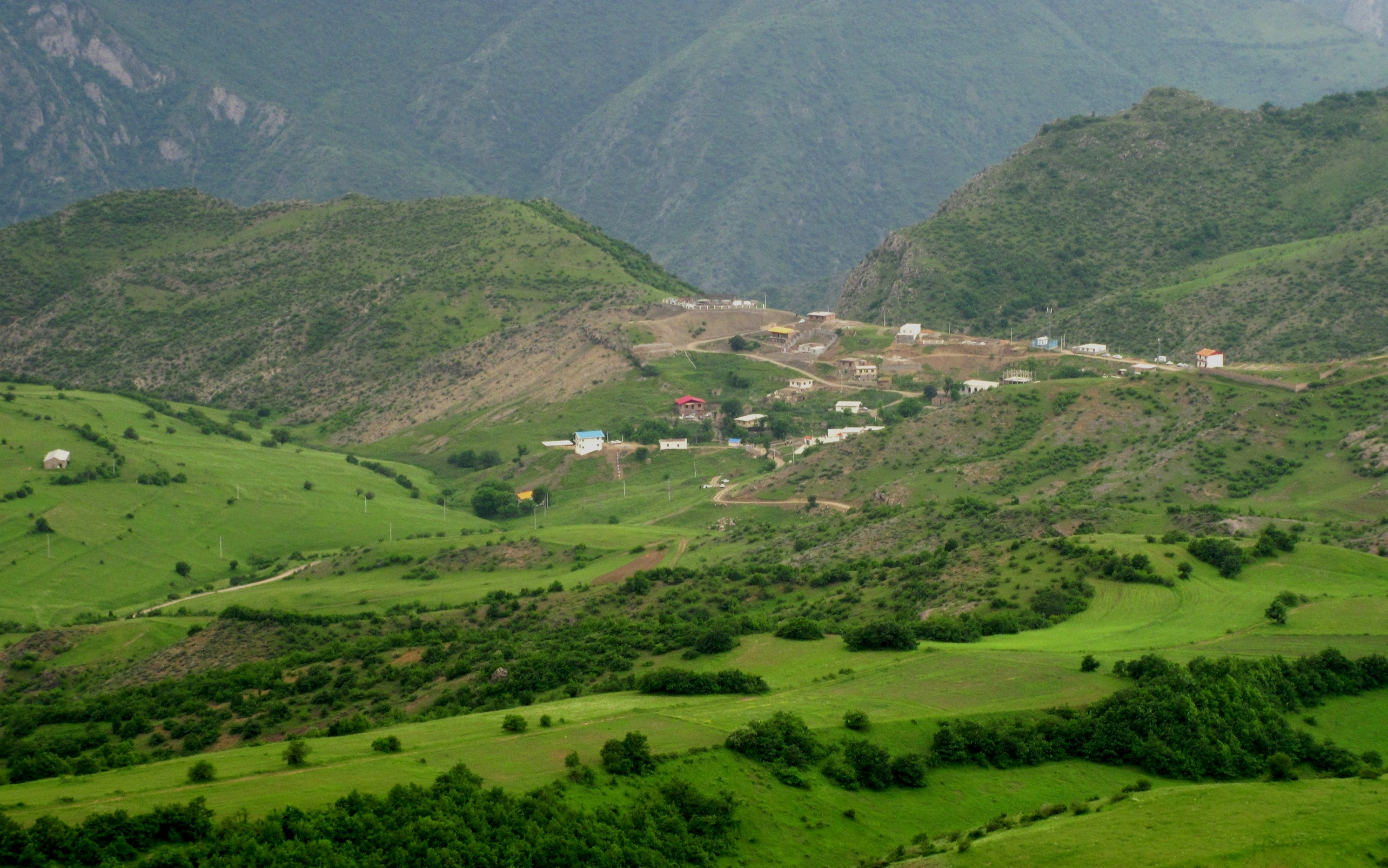 For Vayqan-e Maqadas wiki page.